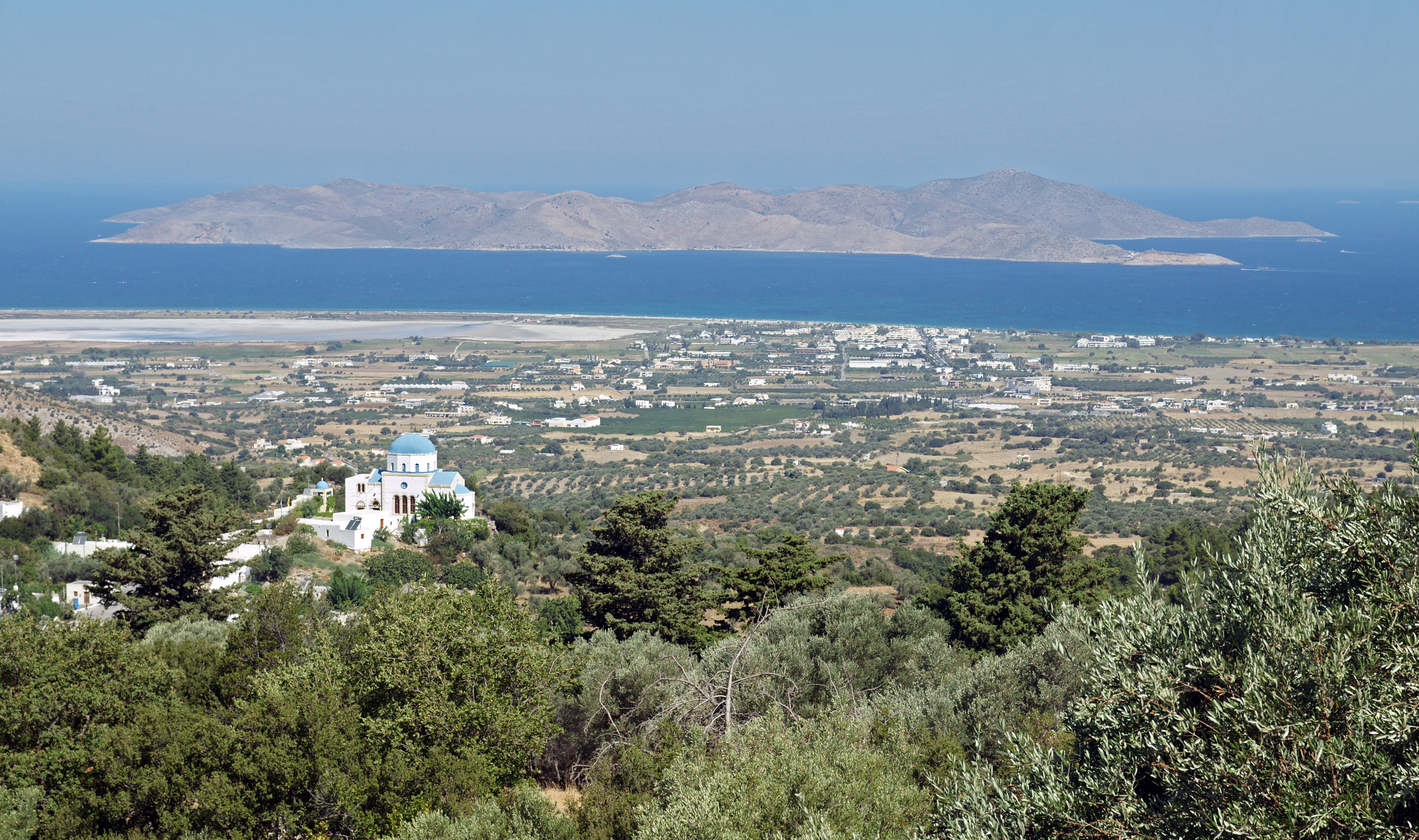 Monastery near Zia town on Kos island, Greece.